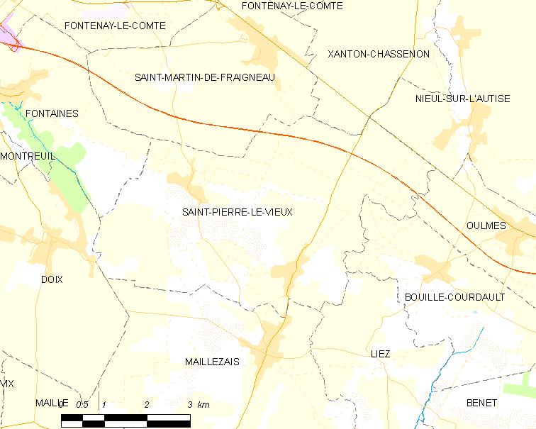 Map of French municipality Saint-Pierre-le-Vieux